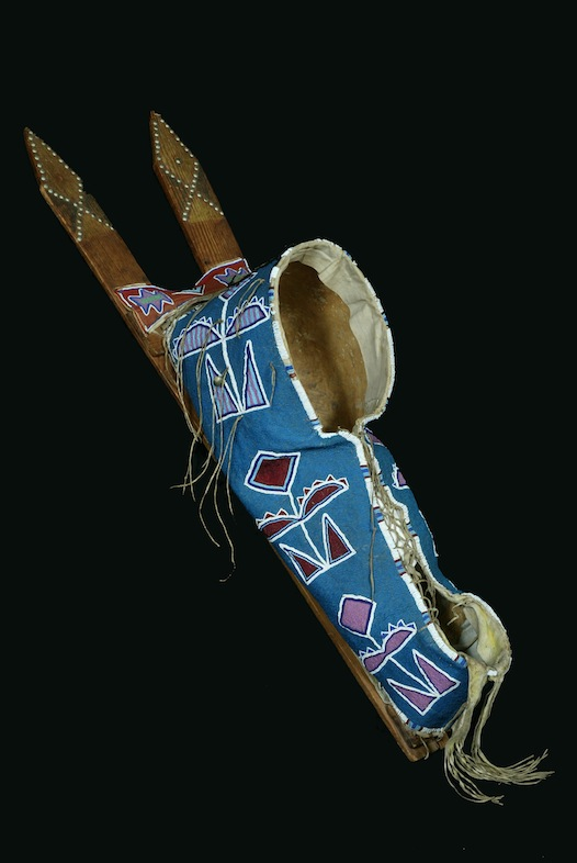 Beaded Kiowa Indian cradle board, Plains, Native American. In the permanent collection of The Children’s Museum of Indianapolis